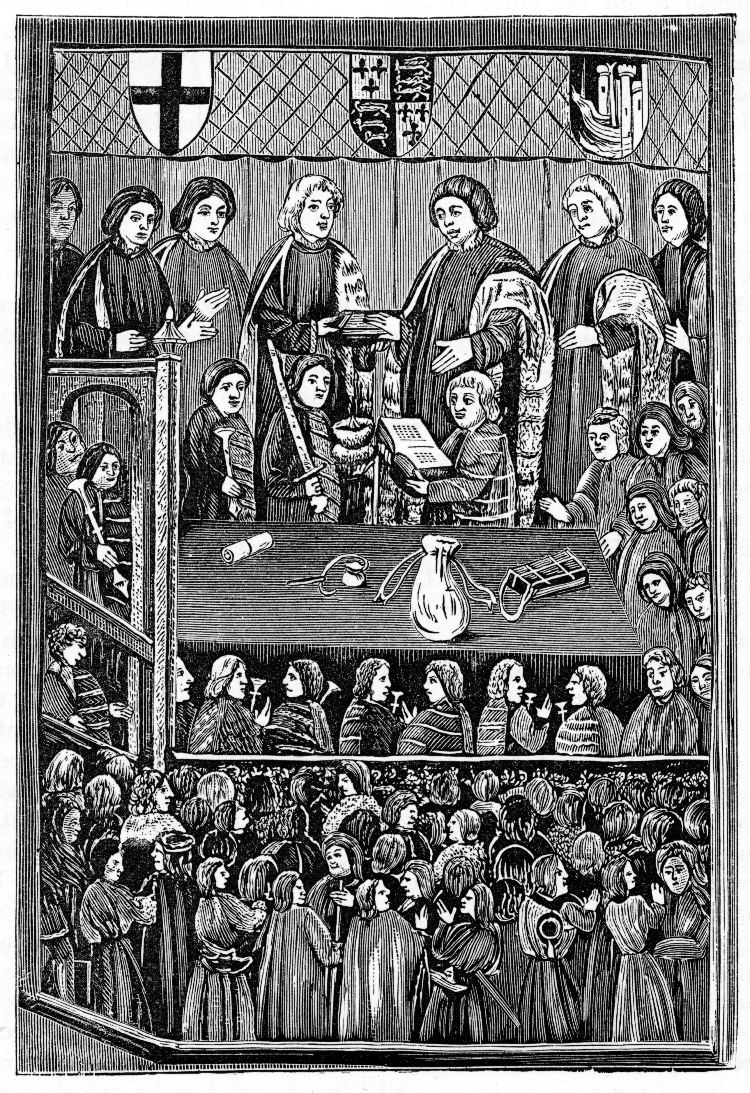 Induction of the Mayor from Robert Ricart's Calendar from fifteenth-century Bristol